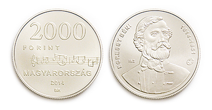 Béni Egressy, coin, 2014. Designer: Laszlo Szlavics, Jr.